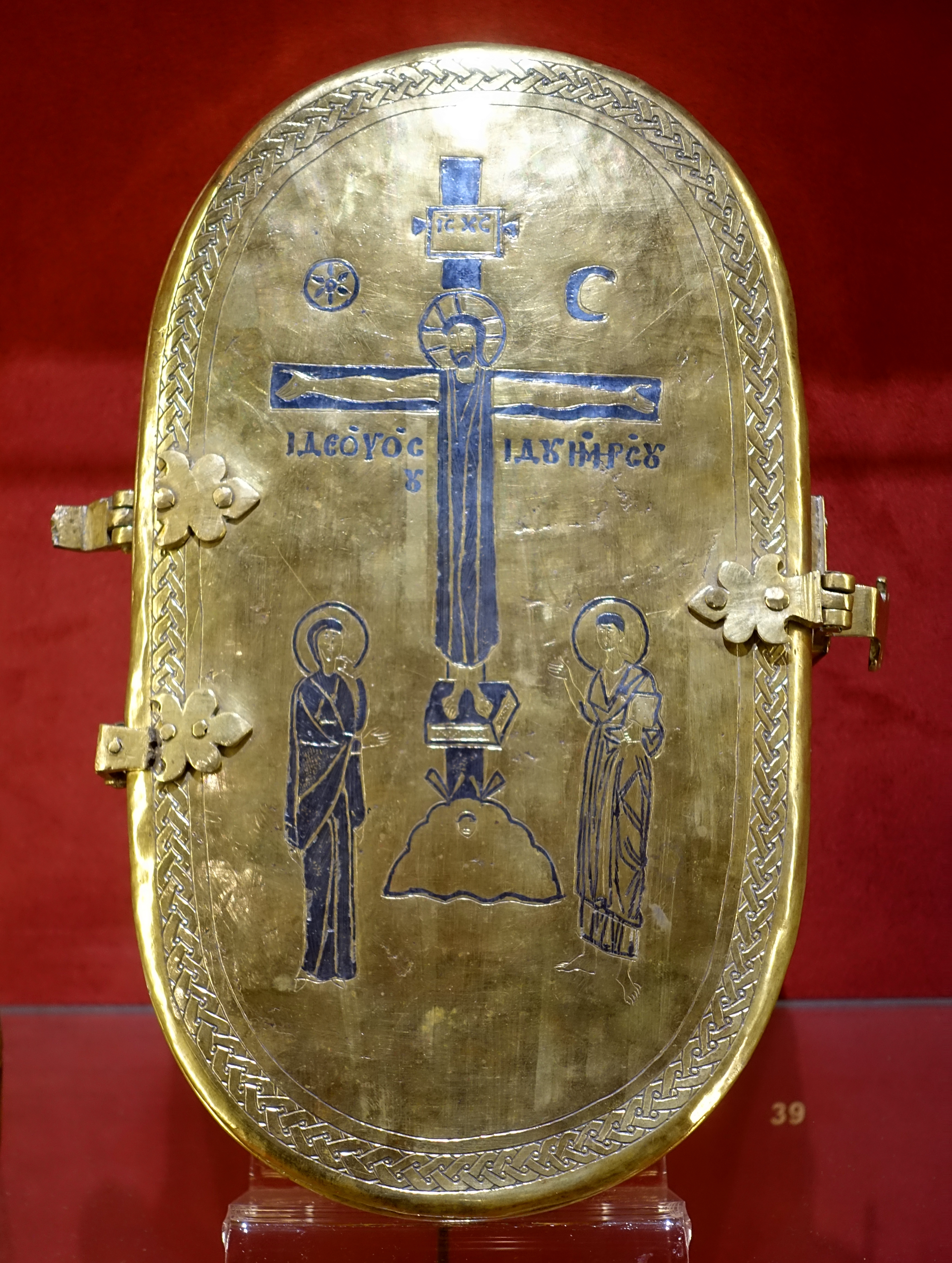 Exhibit in the Museo Sacro - Vatican Museums.